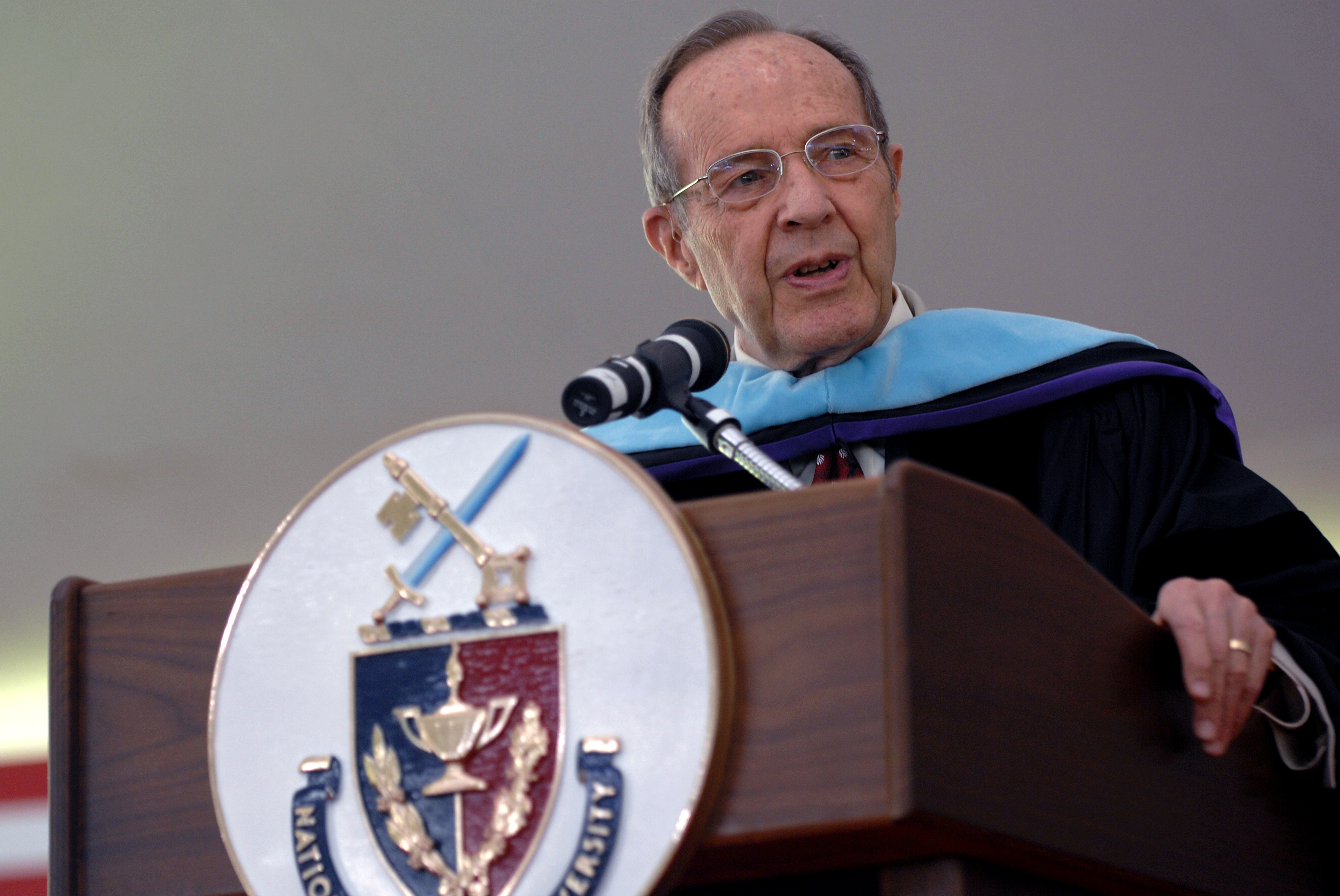 Former U.S. Defense Secretary William J. Perry speaks during the National Defense University graduation on Fort Lesley J. McNair, Washington, D.C., June 12, 2008. Perry received an honorary doctorate from the university for his years of support for the institution.